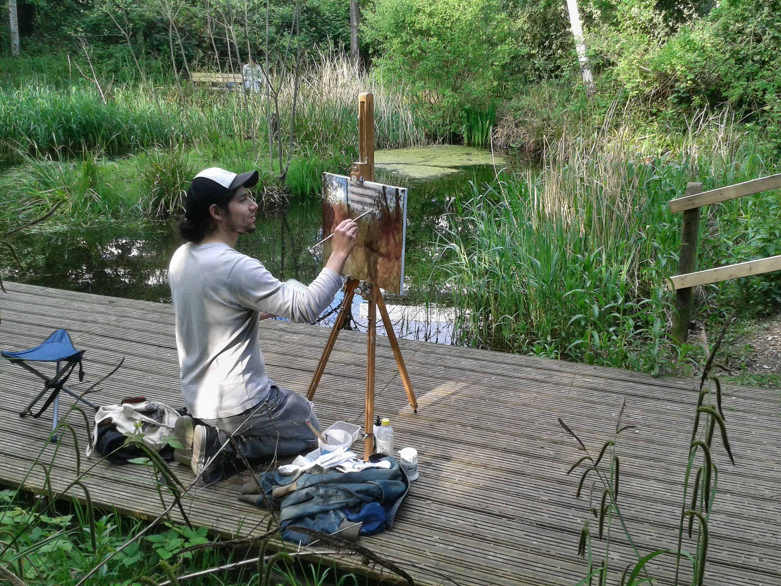 A painter at work on the boardwalk over the pond in the Gunnersbury Triangle Local Nature Reserve